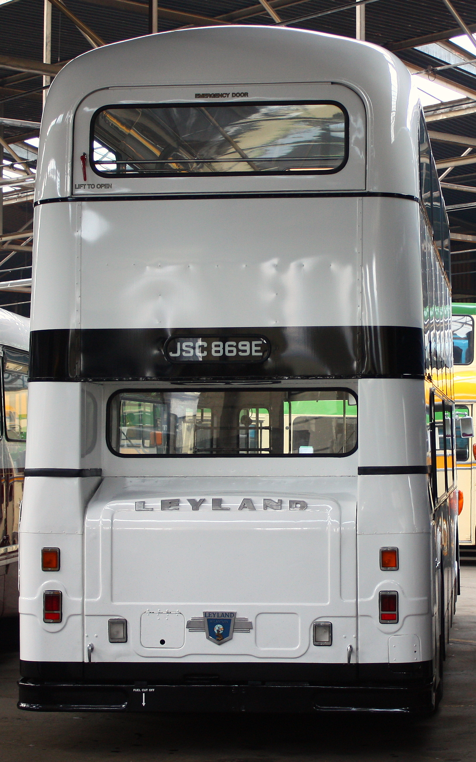 See File:Lothian Region Transport preserved bus 869 Leyland Atlantean PDR2 Alexander A-Type JSC 869E coach division livery, 11 October 2009.jpg for description.